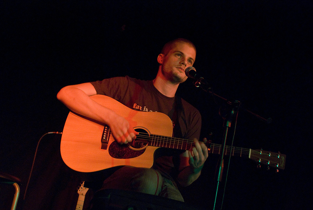 Jay Brannan at the INIT, Rome, Italy, on 16 October 2008